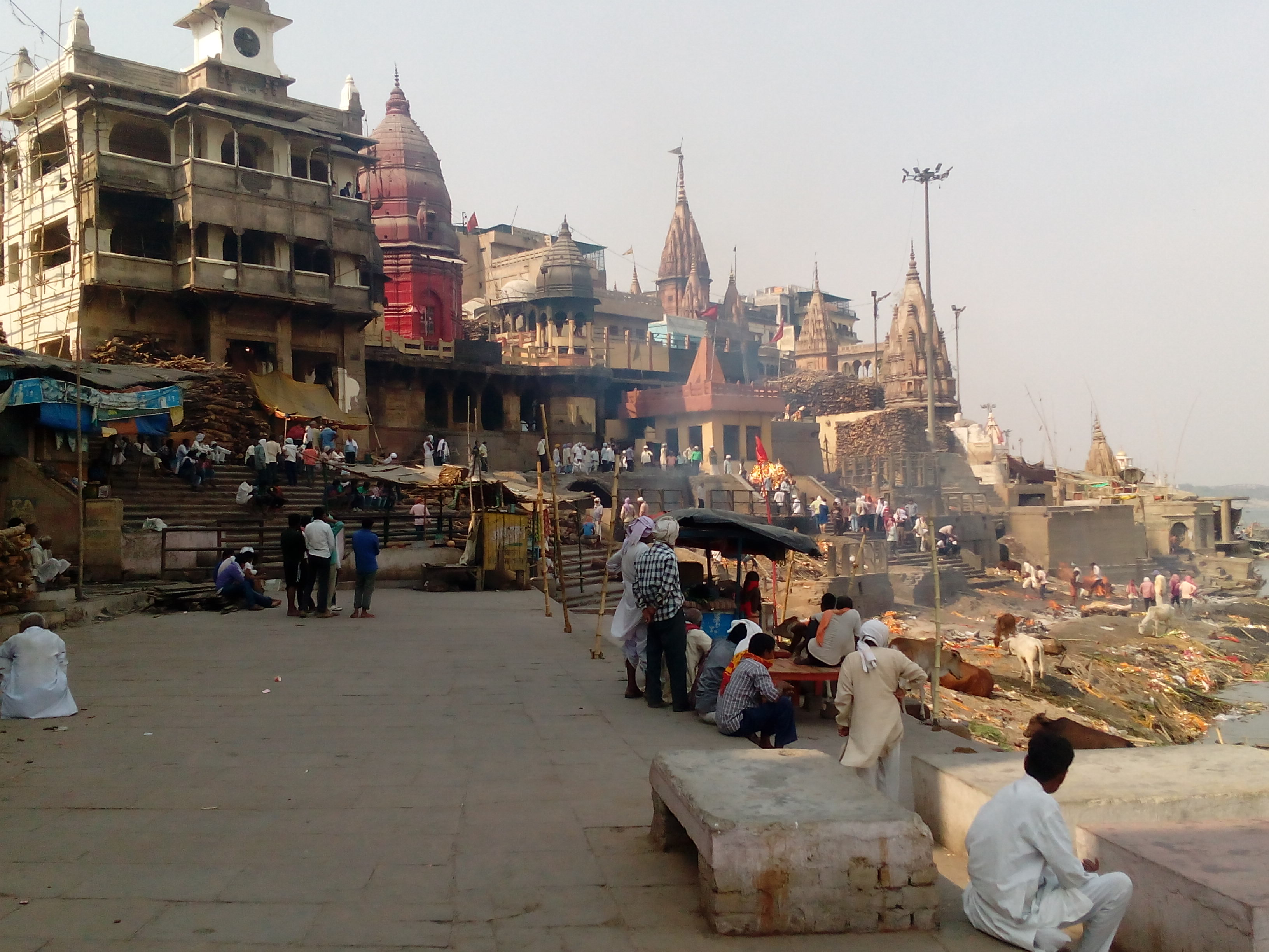 Manikarnika Ghat (मणिकर्णिका घाट) - Famous for being a place of Hindu cremation. This ghat has religious significance.